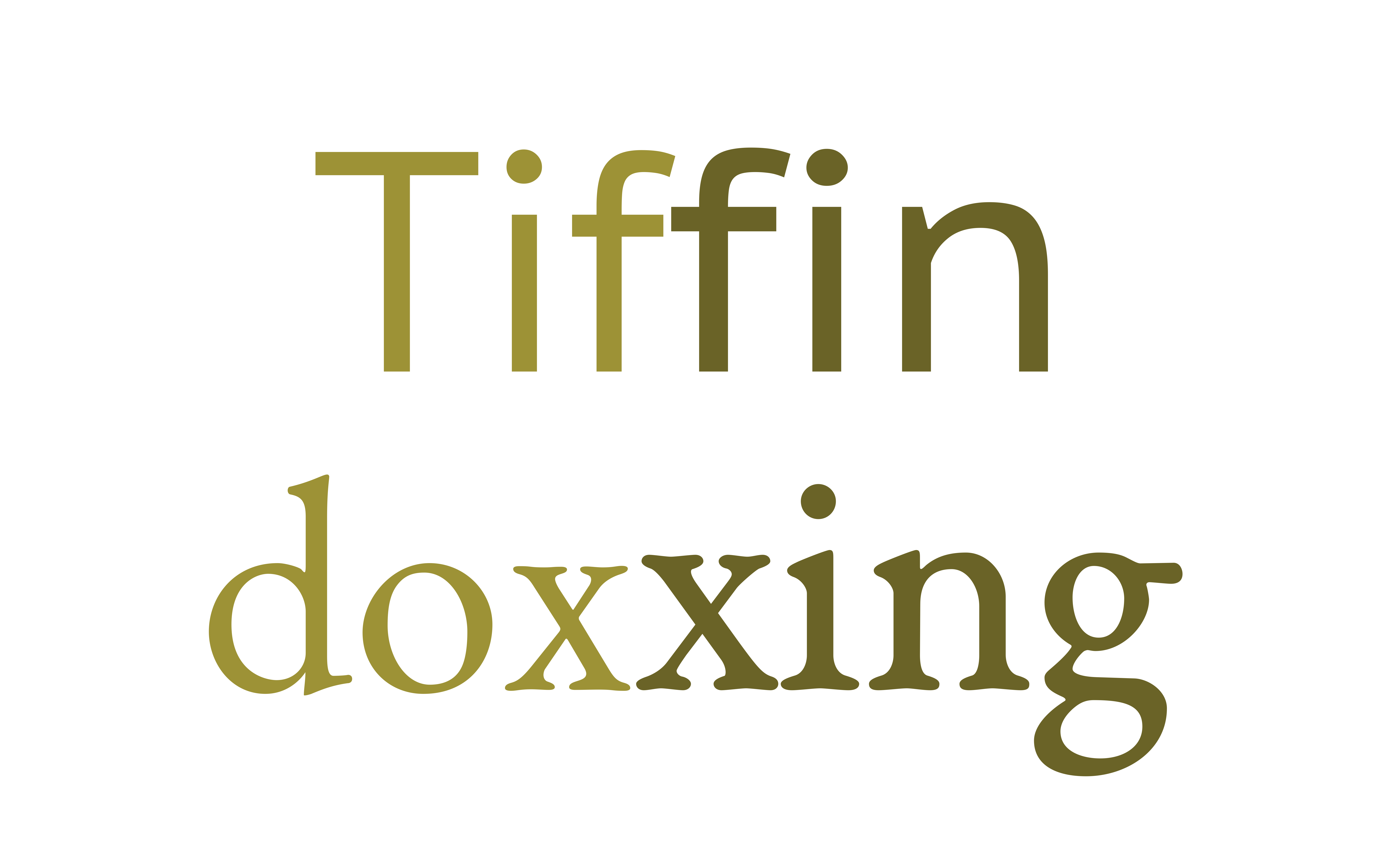 A comparison of x-heights in regular and caption styles of two open-source typefaces, PT Sans and EB Garamond. With both the comparison is approximate, since the fonts are not styled to exactly match on the page, but the increased x-height and bolder style of the caption fonts should be very clear.